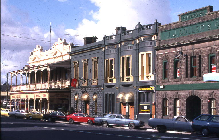 ballarat shops, australia